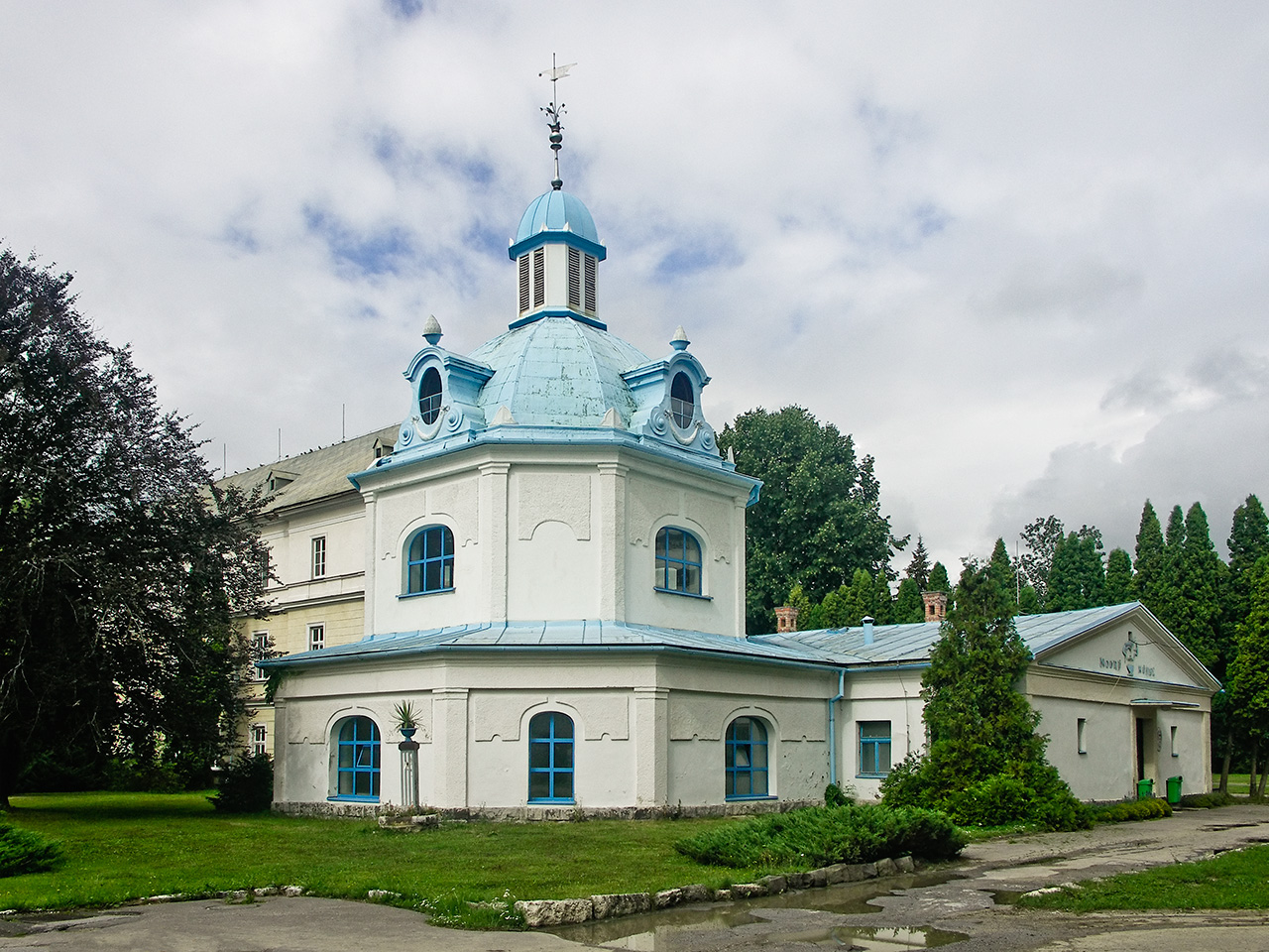 The Blue Spa building in the town of Turčianske Teplice, Slovakia